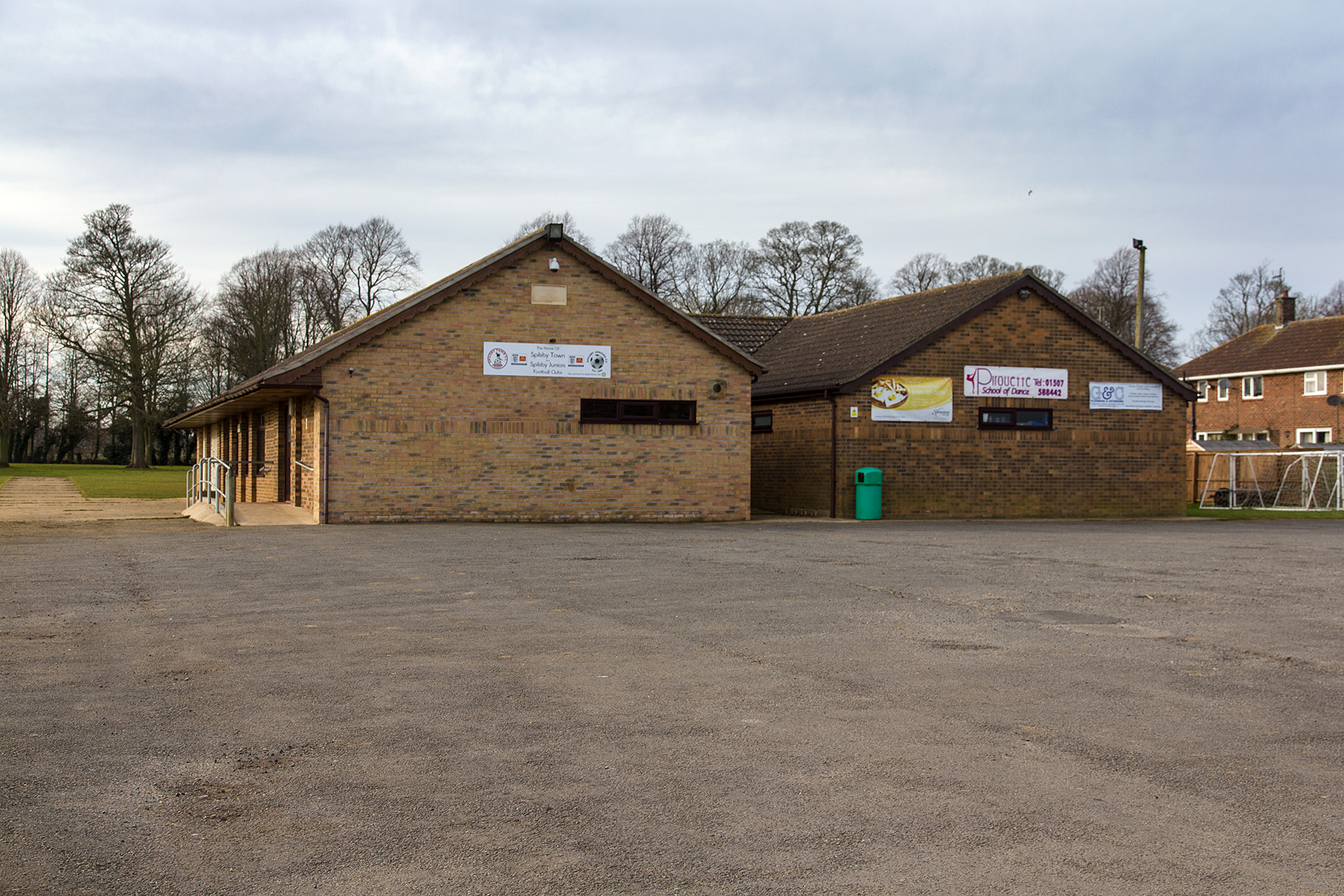 The club house for Spilsby Town Football Club, off Ancaster Drive. © Copyright David P Howard